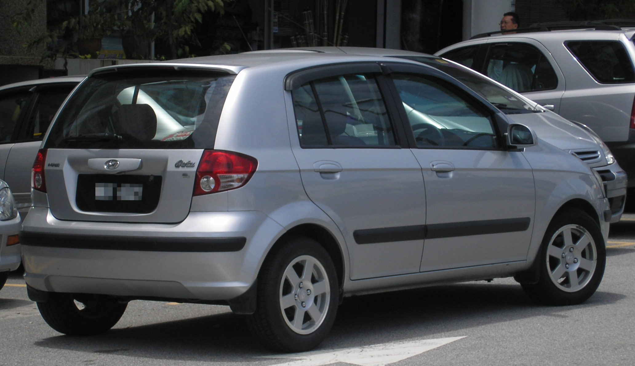 Rear-side shot of an first generation Hyundai Getz, in Serdang, Selangor, Malaysia.